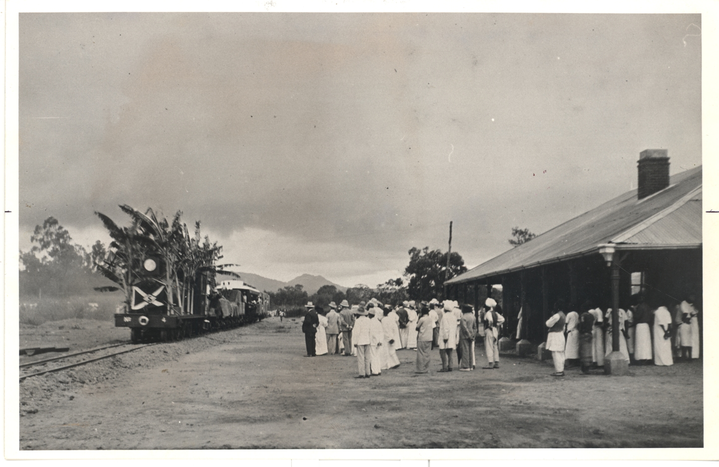 1908 first train arrives in Blantyre